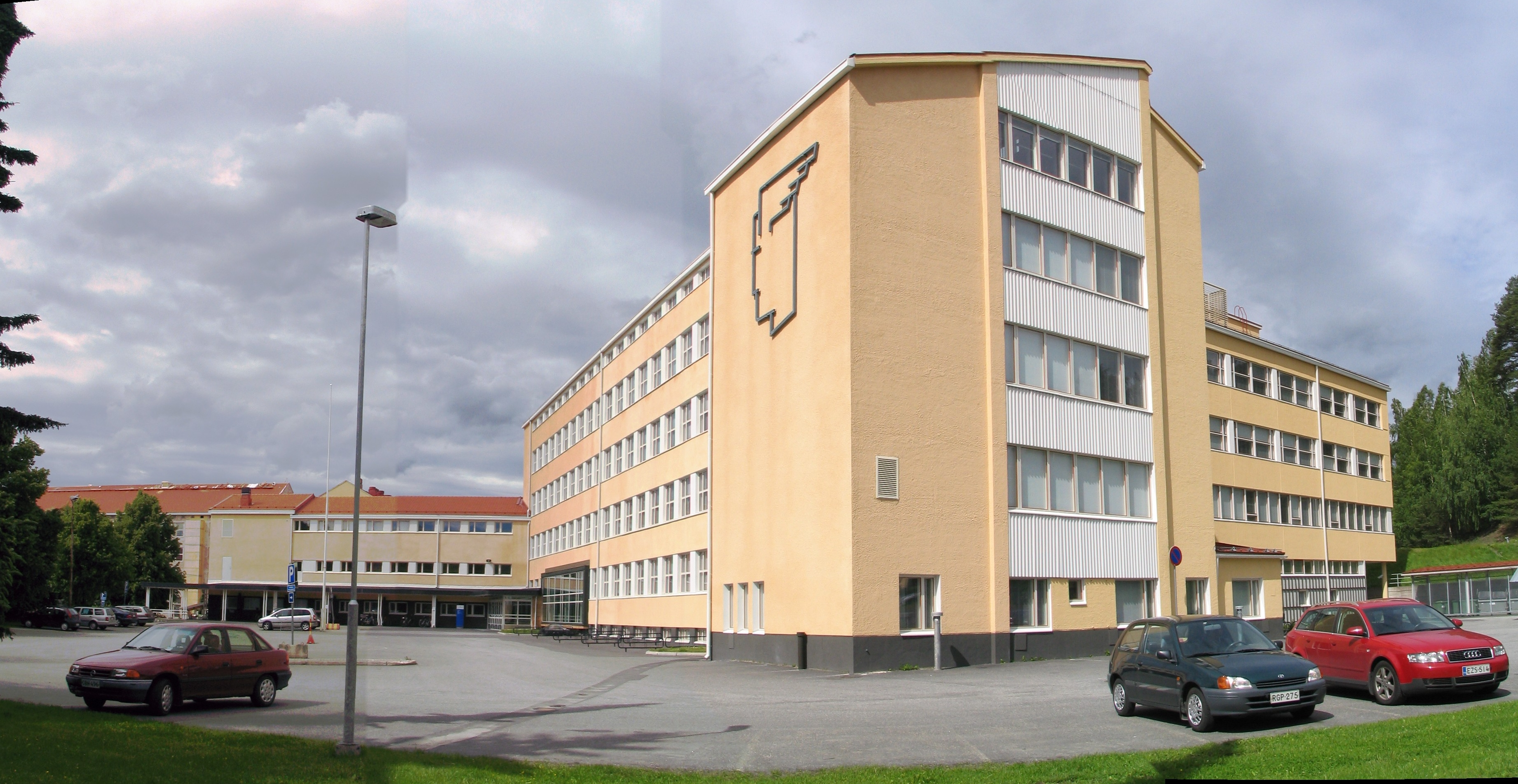 Picture of main campus of Jyväskylä University of Applied Sciences. In the picture is building of School of Business Administration.